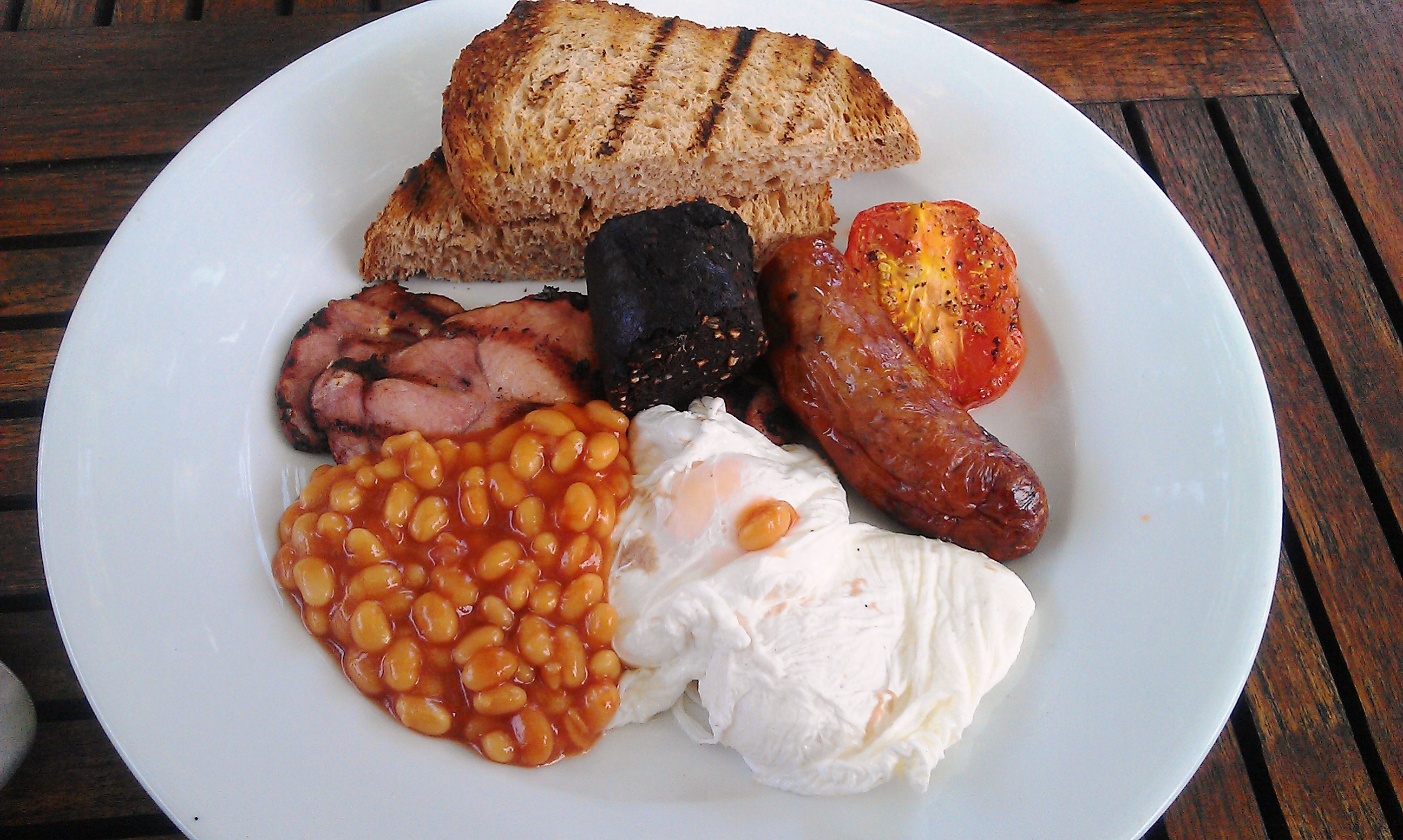 A camera photo of my full English breakfast (though I ate it more like lunchtime). Good quality stuff. I asked for poached eggs, by the way. That wasn't them going crazy. At The Bald Faced Stag, High Road.